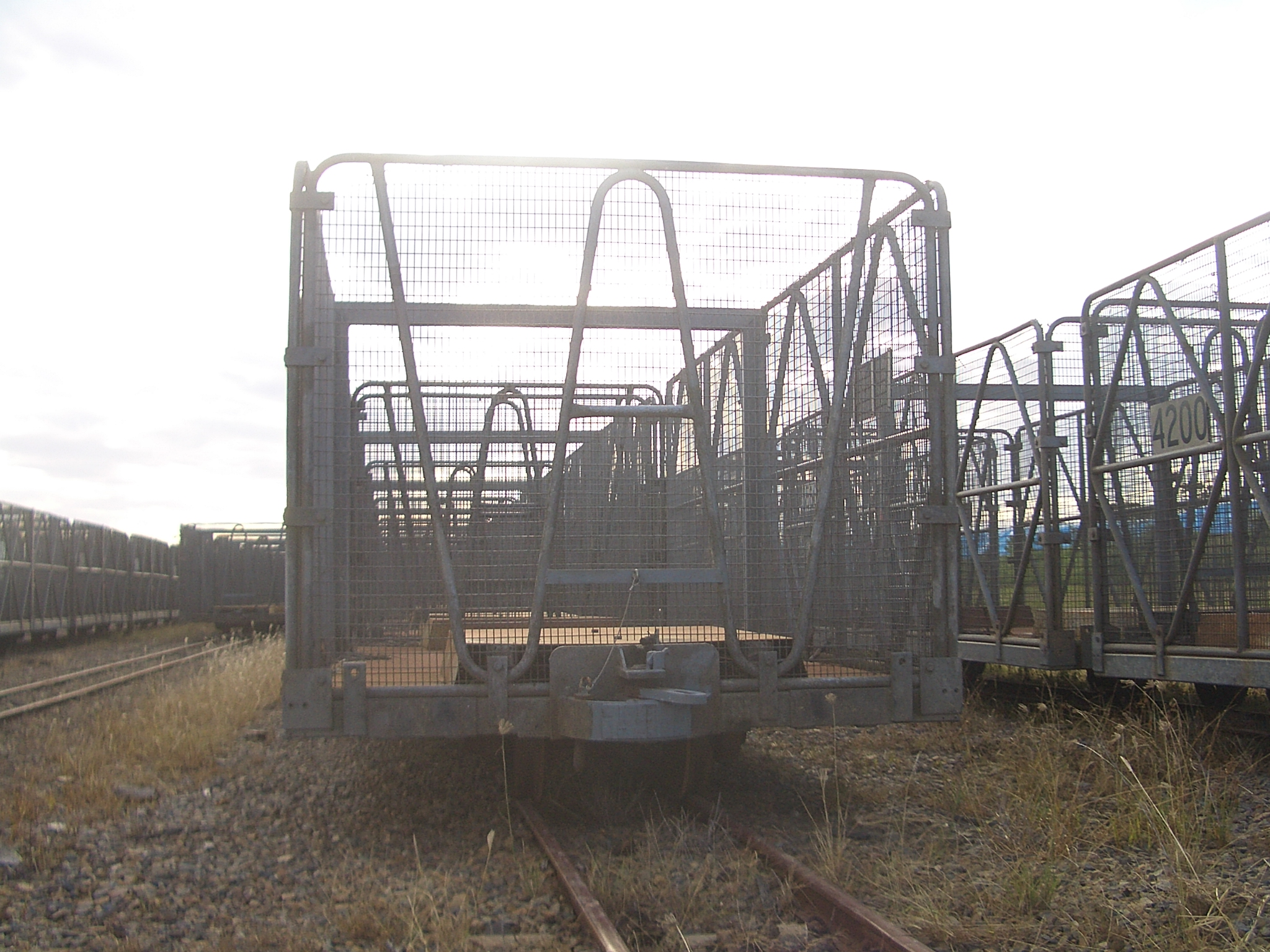 The rail cars of the narrow-gauge sugarcane railway, near Proserpine Sugar Mill. The rail cars are empty, as this is off-season. Notice how wide they are (about 2.5 m) compared to the gauge width (610 mm)!